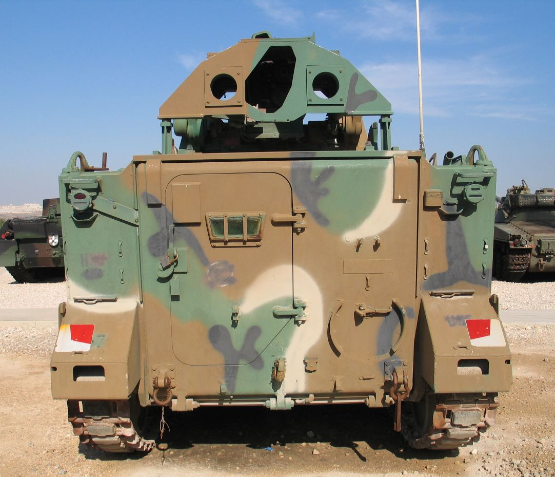 Description: M901 Improved TOW Vehicle in Yad la-Shiryon Museum, Israel. 2005. Source: Photo by me, User:Bukvoed.